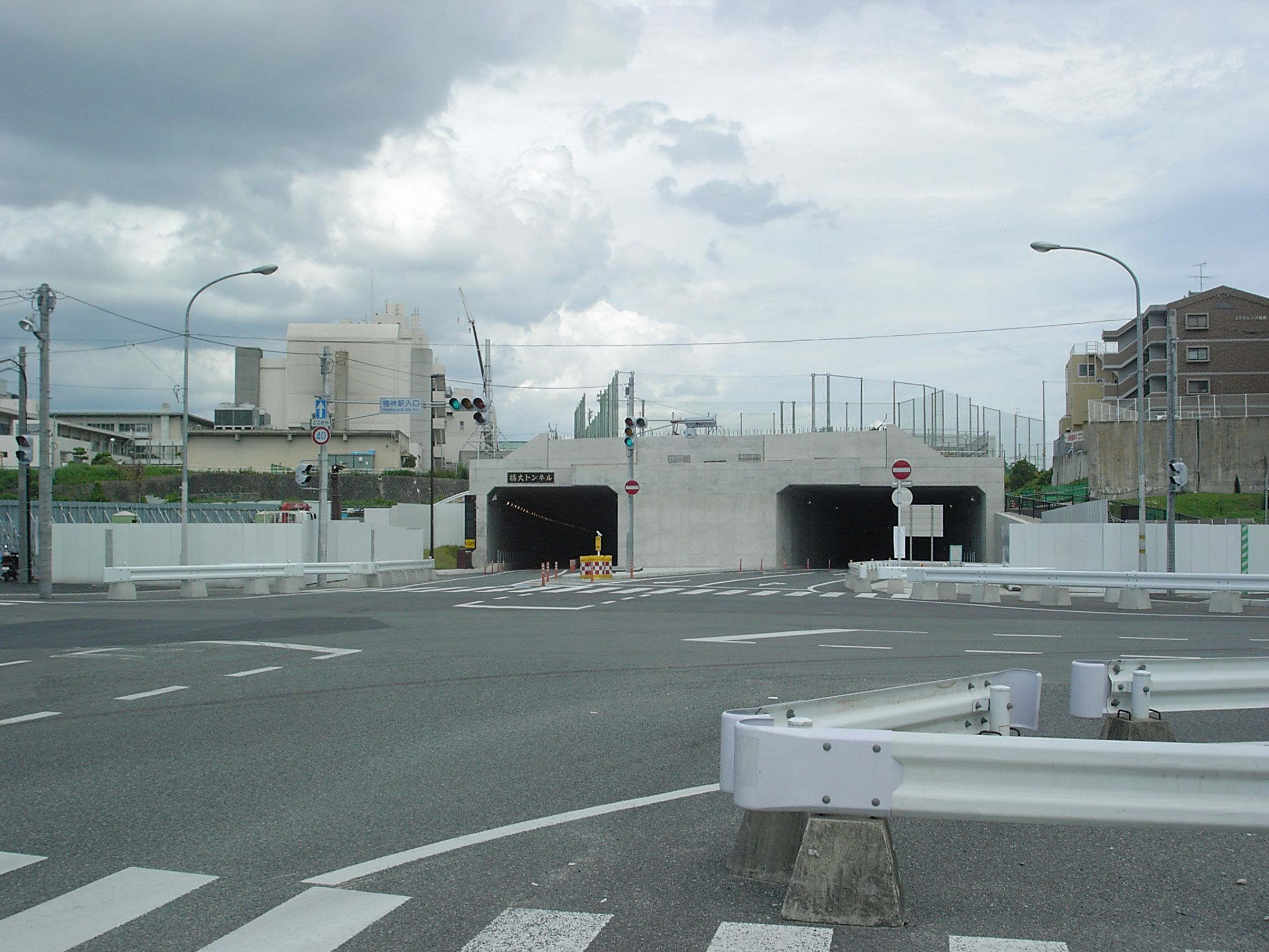 Fukudai Tunnel, the tunnel road under the ground of Fukuoka University. The Fukuoka Ring Road Route 202 and the Fukuoka Expwy r5 go through it.